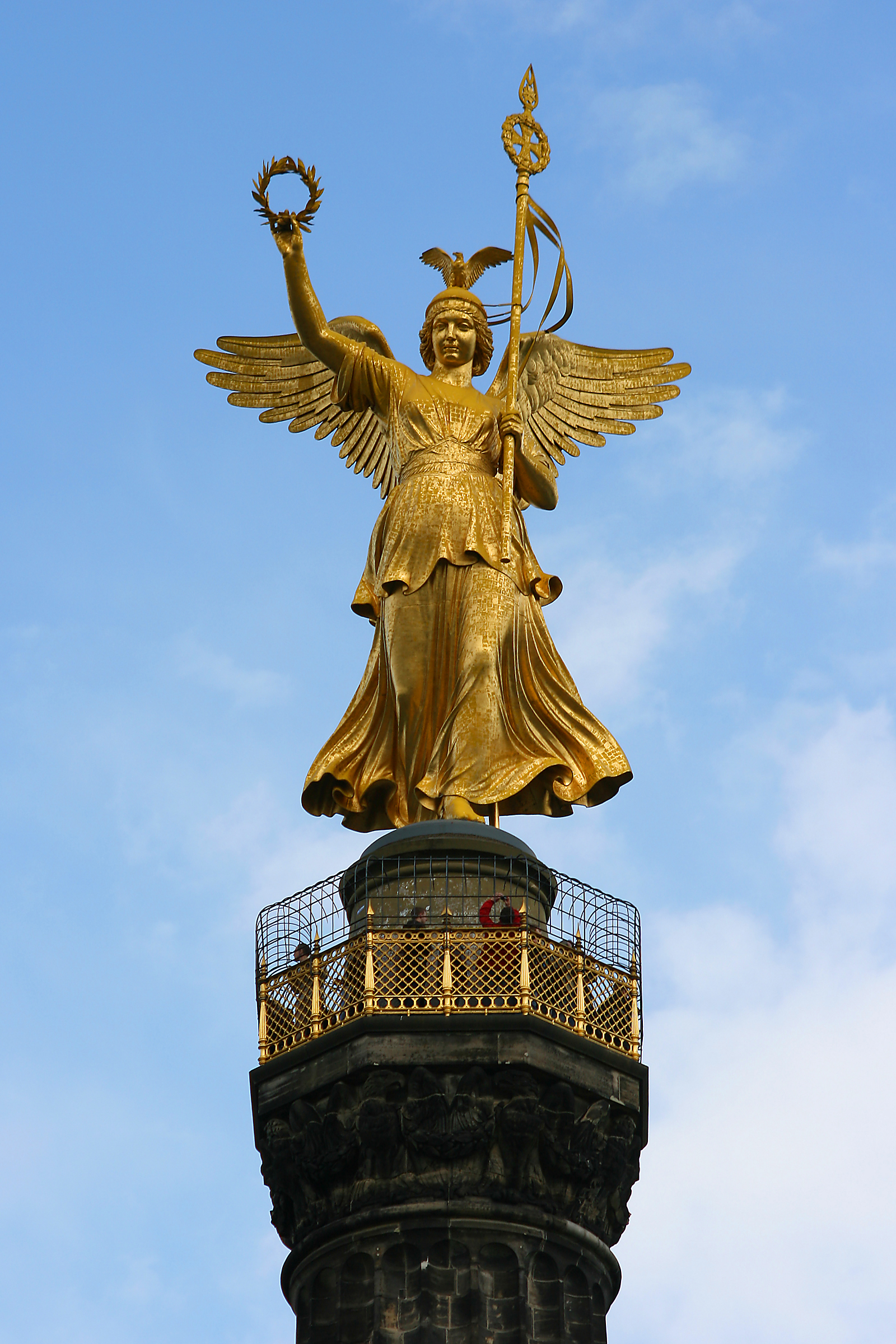 pinnacle of the Victory Column in Berlin, Germany